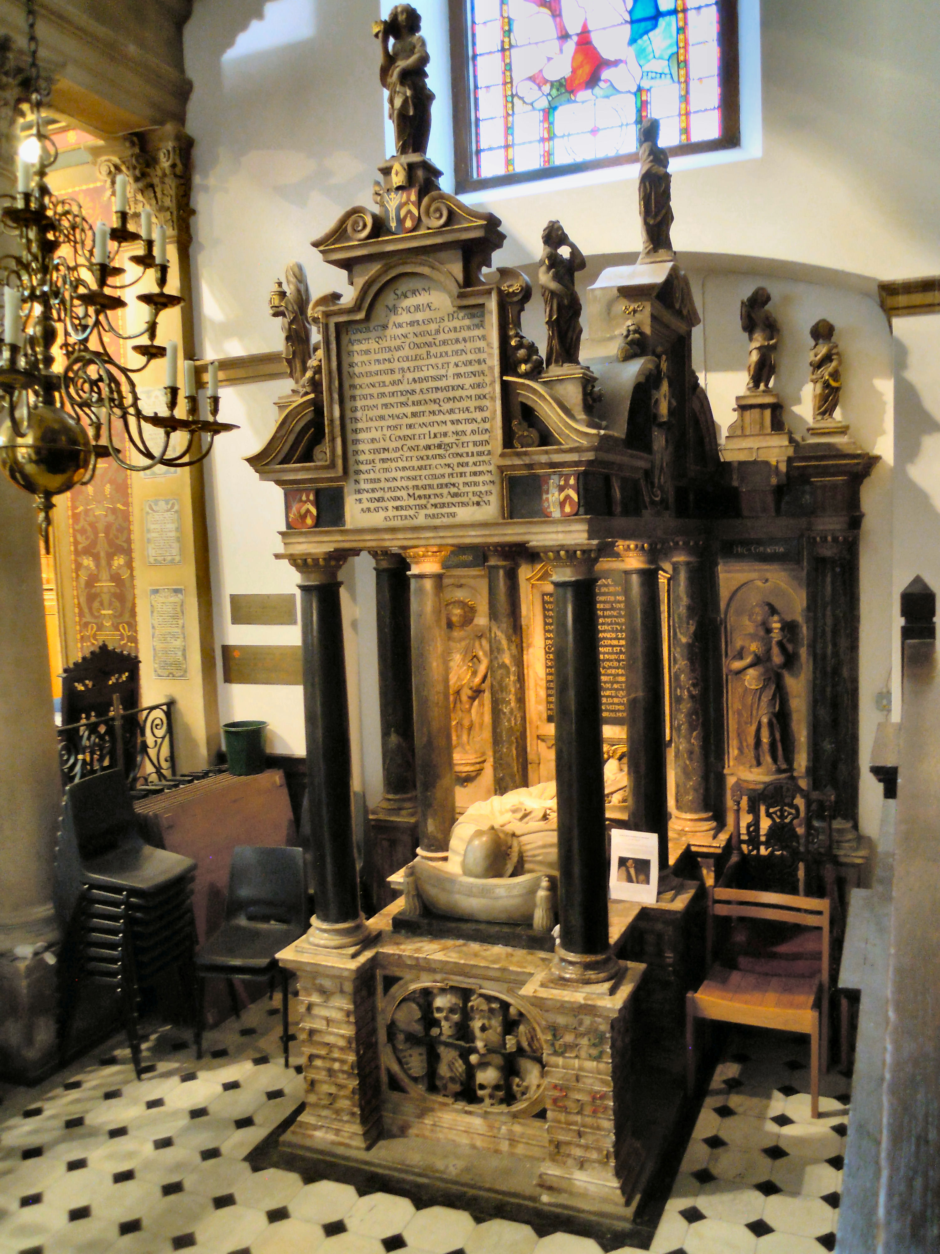 Tomb of George Abbot, Archbishop of Canterbury in Holy Trinity Church in Guildford in Surrey